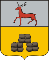 Makaryev (Nizhny Novgorod Governorate), coat of arms (1781)